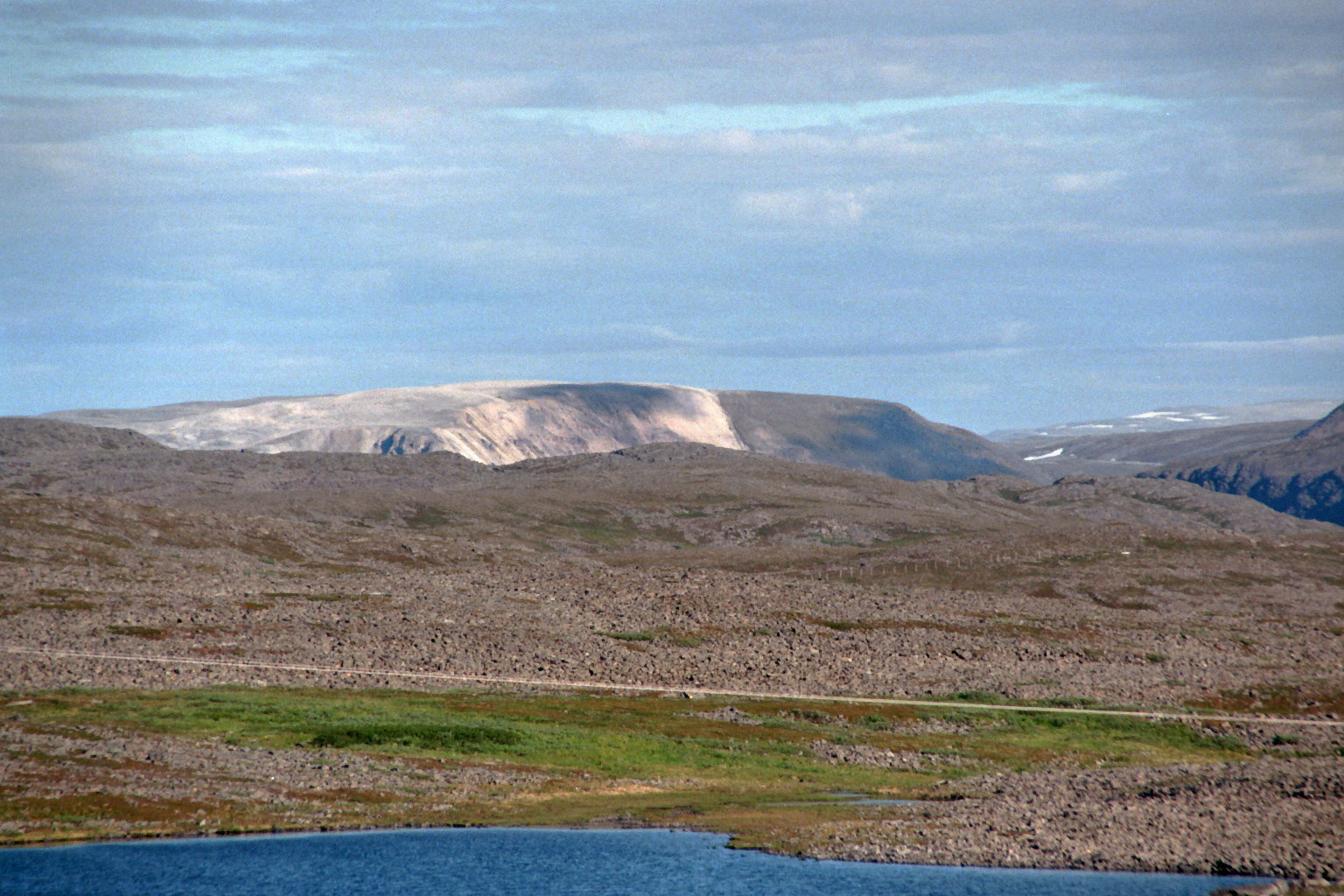 Between Mehamn and Hopseidet / Nordkinnpeninsula / Finnmark / Norway: About 10 km north of Hopseided, looking from national highway 888 to the east